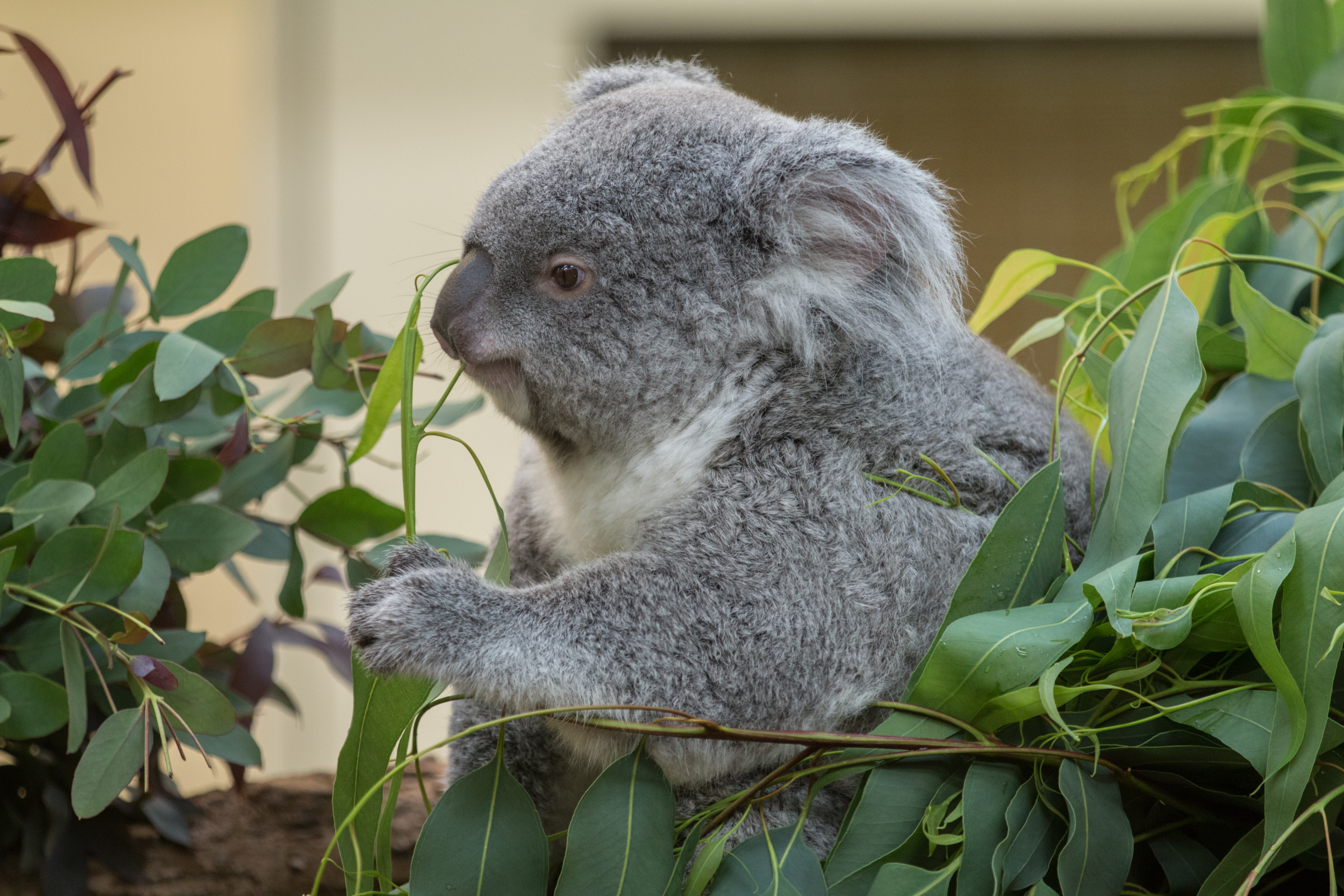 Phascolarctos cinereus in Tiergarten Schönbrunn